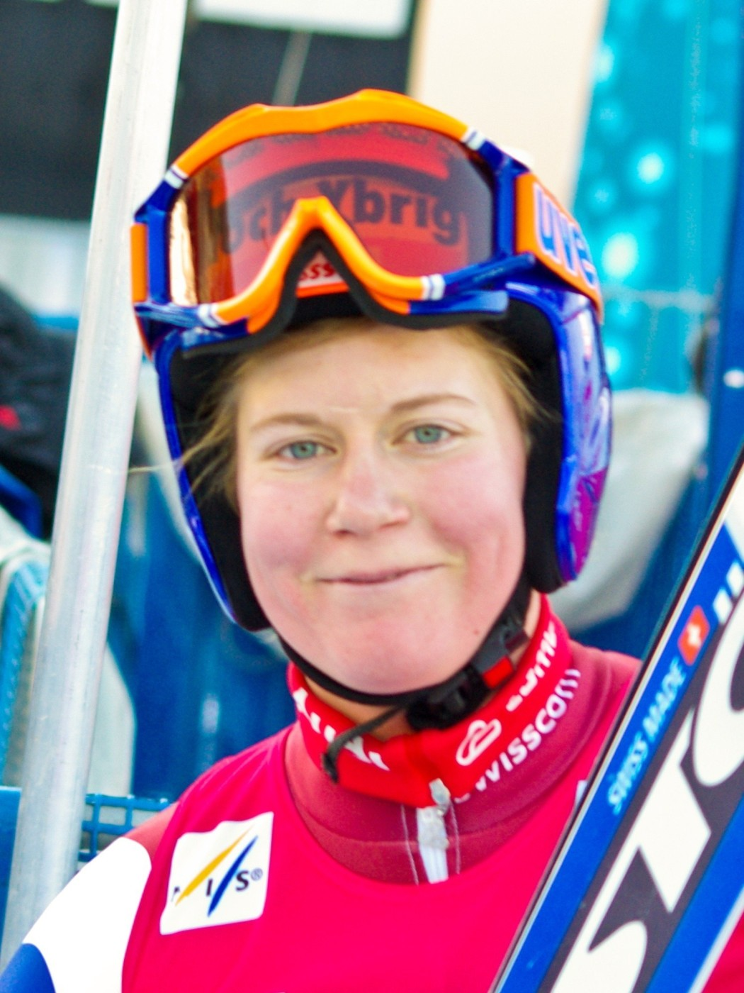 Swiss alpine skier Andrea Dettling after the second downhill training in Altenmarkt-Zauchensee (Austria) on 16 January 2009.